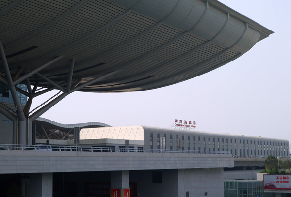 the exterior of Changshanan Maglev Station